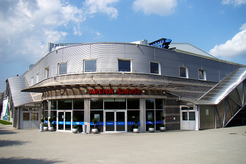 Sanok Sports Arena.